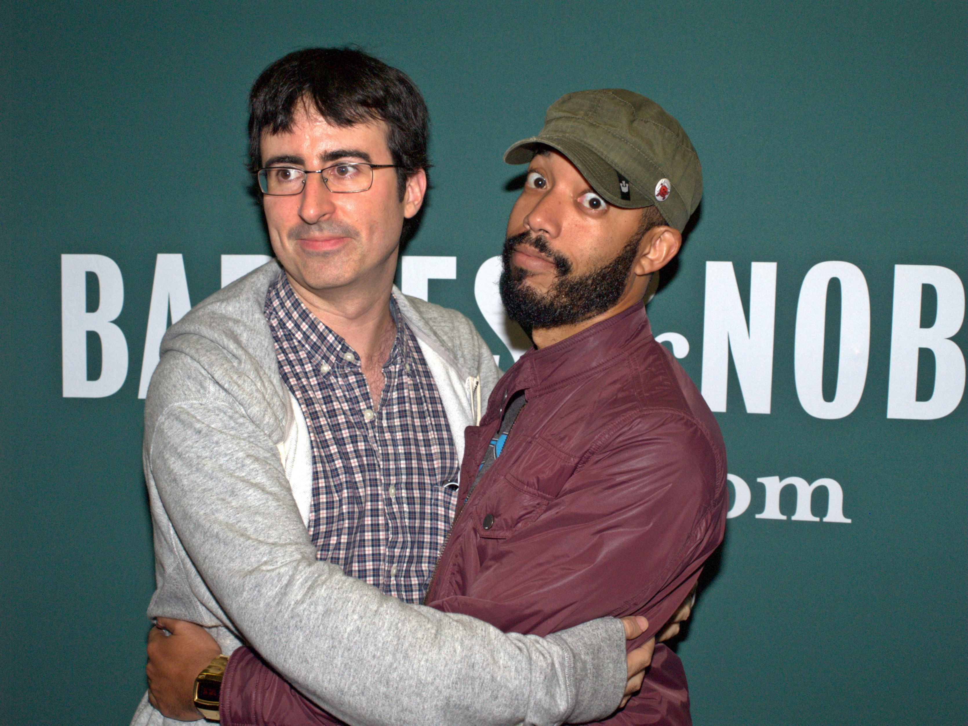 John Oliver and Wyatt Cenac at Barnes & Noble Union Square for the launch of Earth (The Book), the 2010 book from the writers of The Daily Show